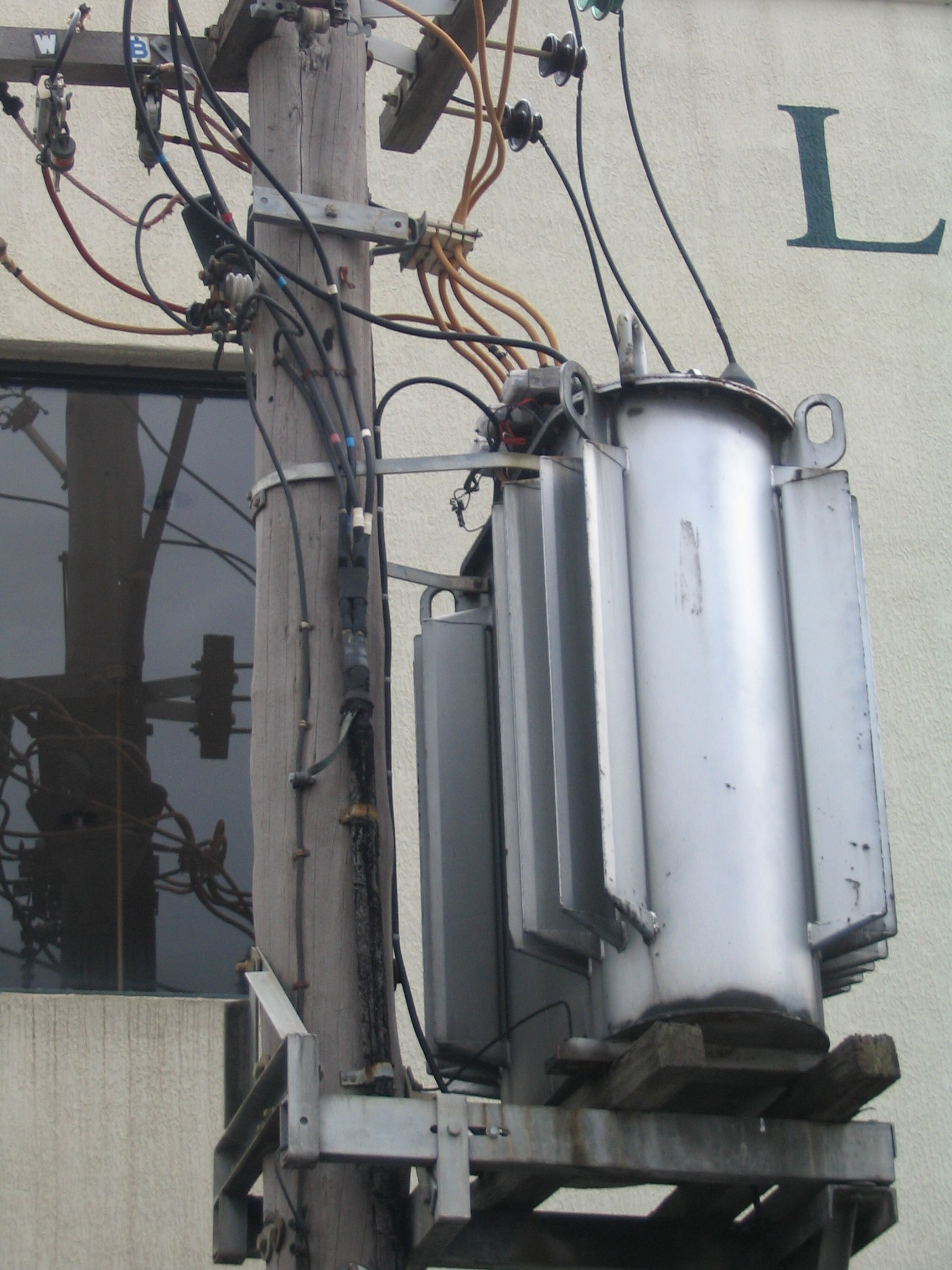 Three phase pole mounted power distribution transformer, Melbourne, Australia